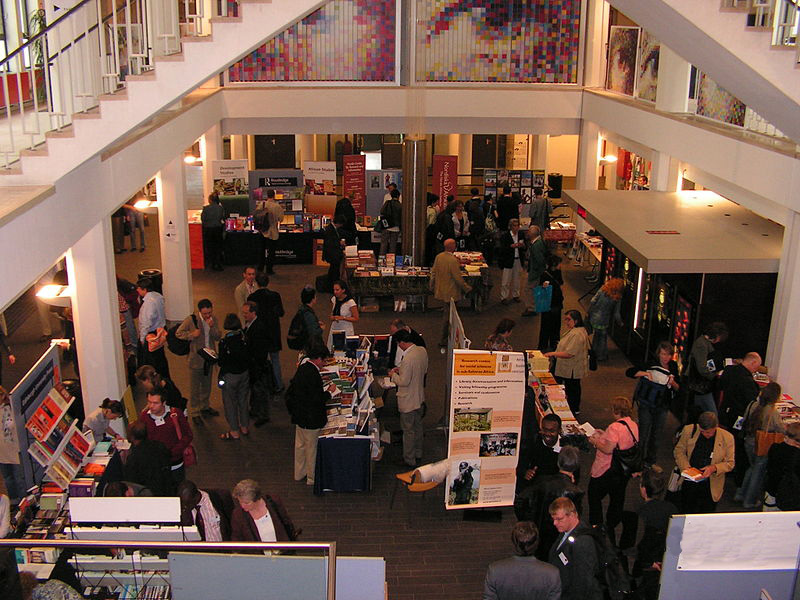 ECAS 2007 in Leiden. European Conference on African Studies, organized by AEGIS. Venue: Pieter de la Court Building, Leiden University, July 2007